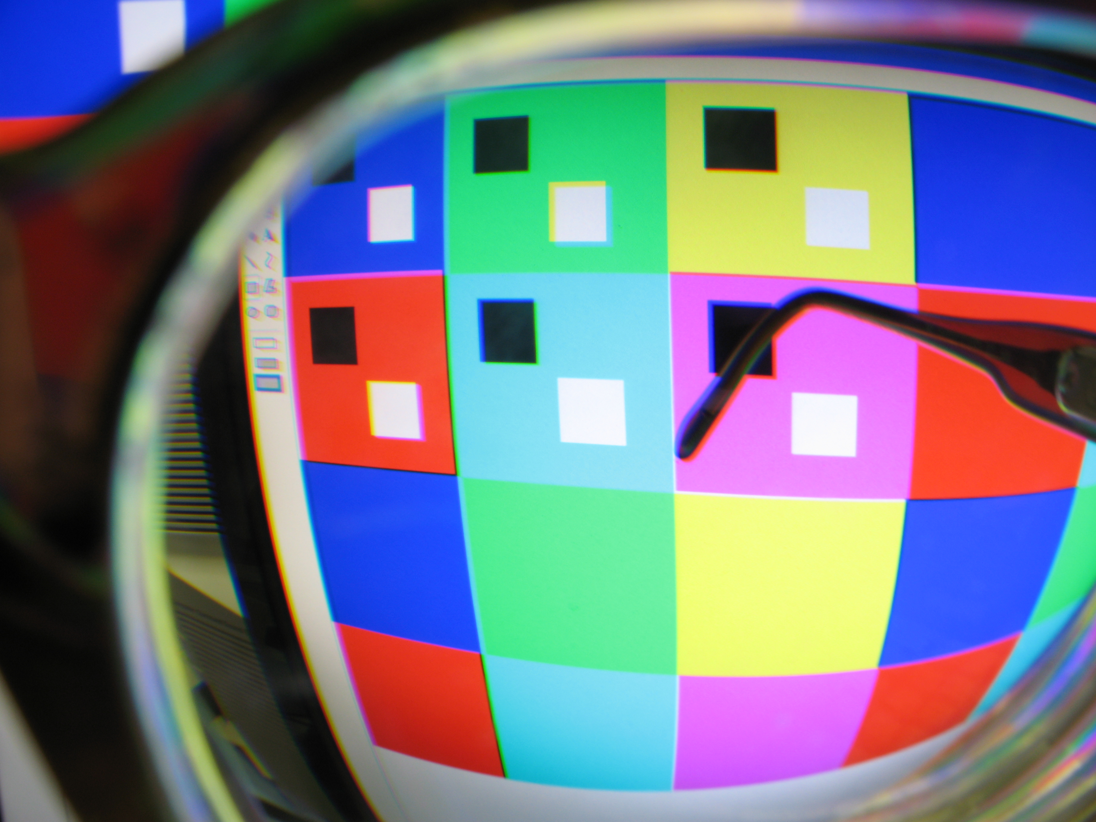 Example of how extremely nearsighted people experience color fringing and distortions if not looking directly through the center of their glasses. See also: Cropped close-up view of fringing Test bitmap used to create these examples. This was created by setting the manual zoom on a Canon PowerShot A640 to be nearsighted, then pointing the camera through the eyeglasses turned backwards to correct the intentional myopia of the camera lens. Wide view image. Next image is a closeup crop of color fringes. Through the sides of the lens, the colors are prismatically shifted and distorted, resulting in seeing color fringing that does not exist. These color fringes make accurate and precision drawing and painting difficult for a person wearing glasses. Several color-box positioning mistakes were made while trying to create the example image for this demonstration. Only zooming in at high detail to enlarge edges is sufficient for dealing with these optical color errors. Extreme nearsighted users of contact lenses do not see these color fringes because the contact lens moves with the cornea and color rendering is always done through the center of the contact lens. (Presumably, optical materials of lower index can result in better color rendering, however I have been unable to find a source for pure glass eyeglass lens to verify this claim.)